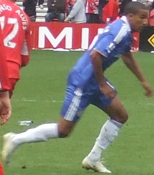 Scott Sinclair.